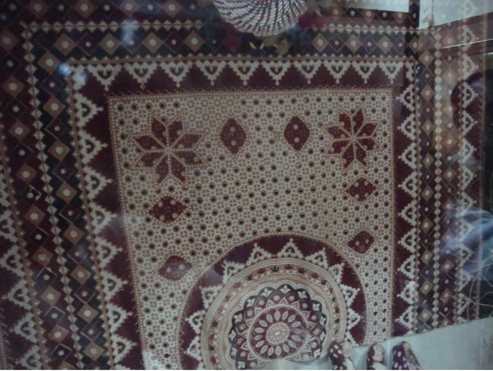 Bed Sheets Local Saraiki Culture Photo by Saeed Akhtar